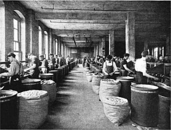 Cork blocking or the paring down of large sheets of bark before shaping into wine stoppers or other household goods. From Pittsburgh area cork factory (Armstrong Cork Co.) in early 1900s.